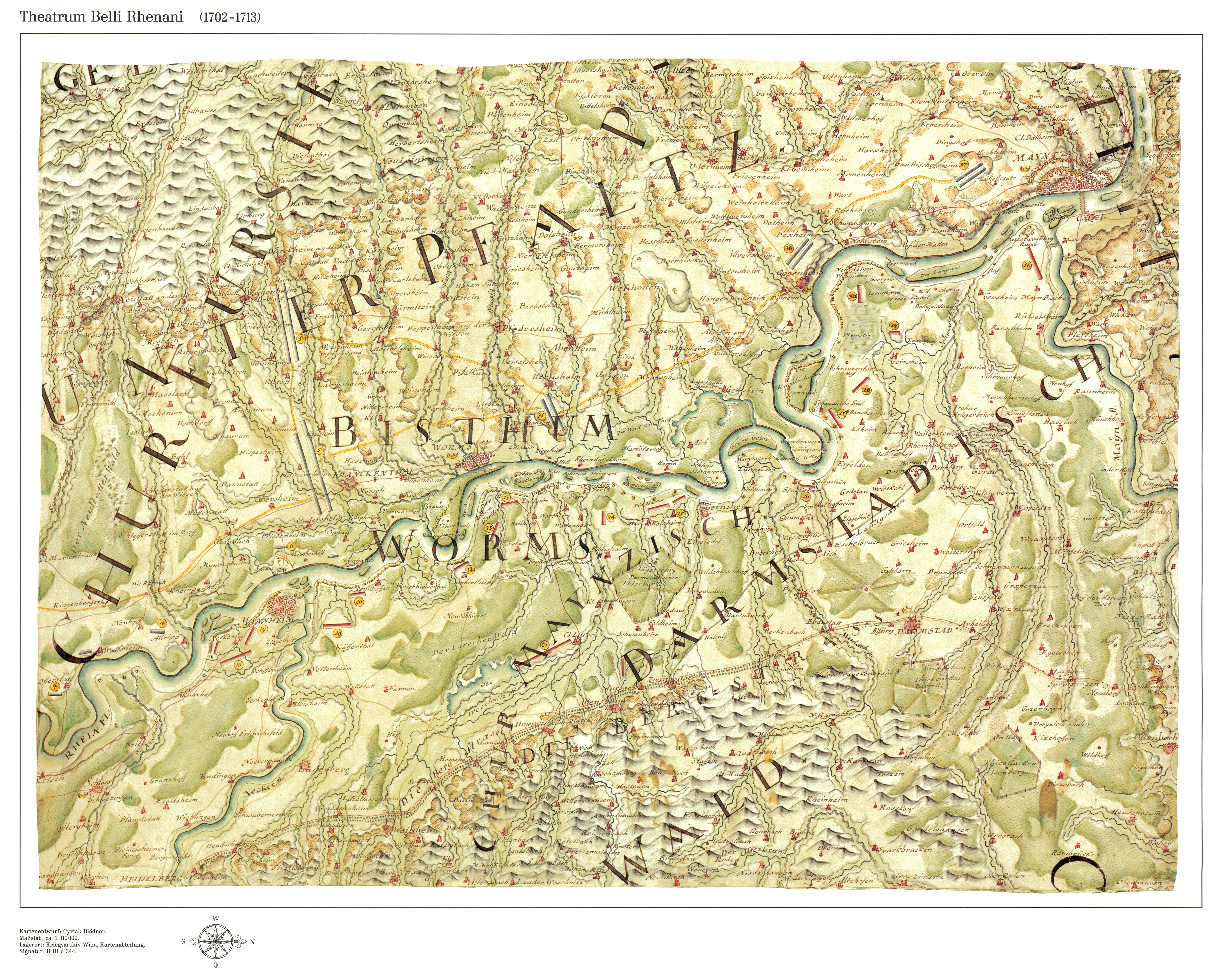 Theatrum Belli Rhenani, map showing the War of the Spanish Succession, scale ca. 1:100.000, West is on top. Sheet 9 (Mainz)